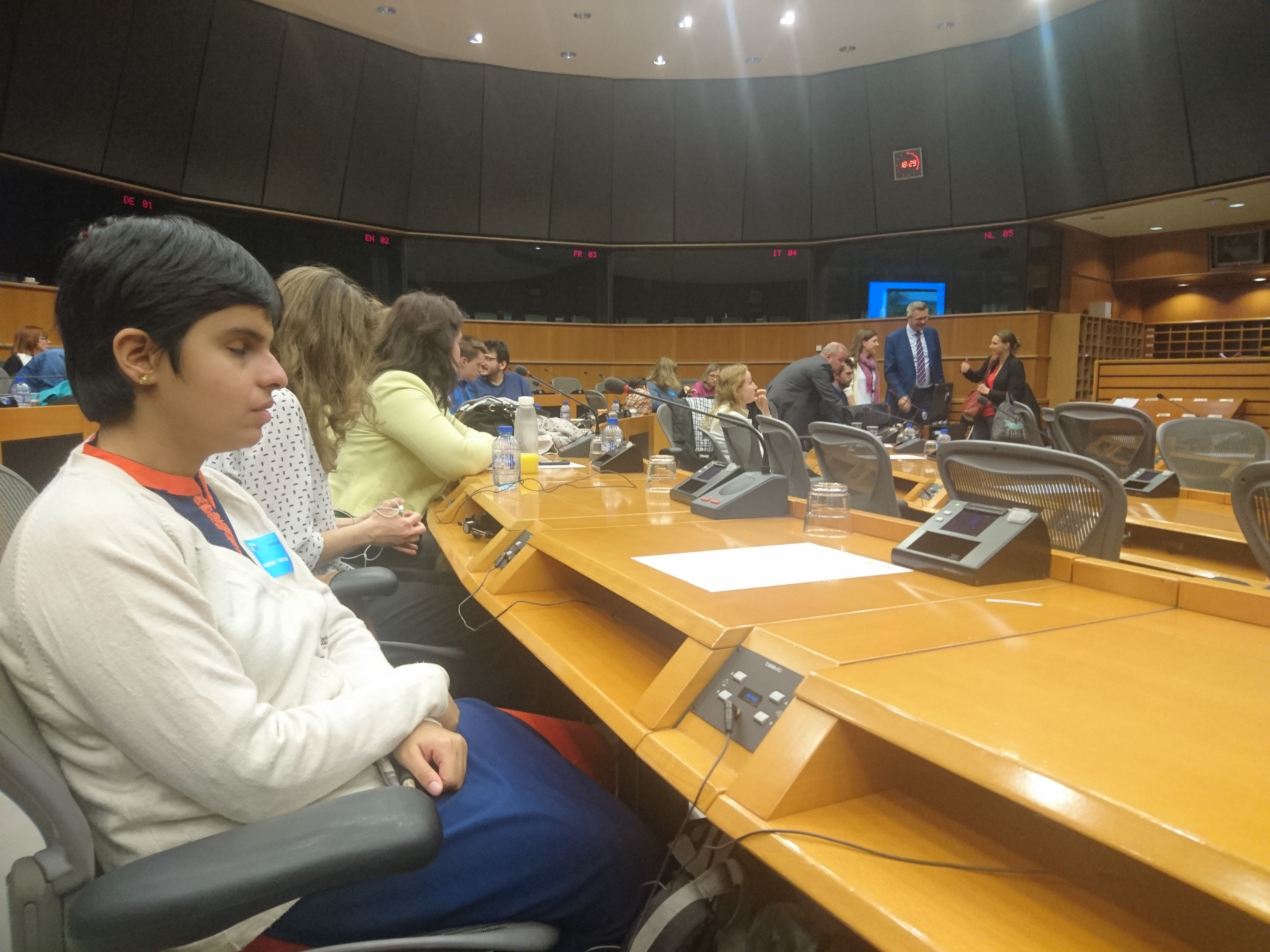 In the European Parliament during the screening of documentary about social change makers from around the world in 2017